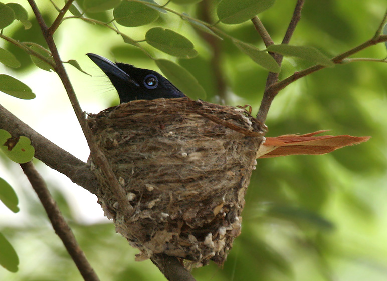 Asian Paradise-flycatcher or Common Paradise-flycatcher Terpsiphone paradisi at Ananthagiri Hills, in Rangareddy district of Andhra Pradesh, India.